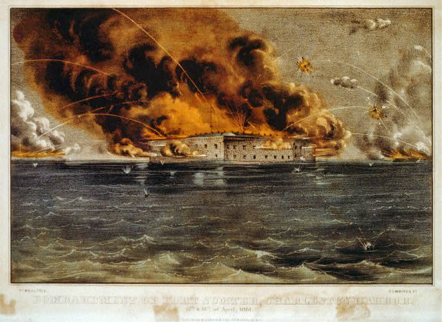 Bombardment of Fort Sumter, Charleston Harbor: 12th & 13th of April, 1861, Library of Congress Prints and Photographs Division Washington, D.C; Digital ID: cph 3b49873